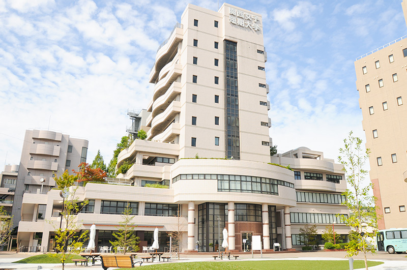 KANSAI WOMEN'S COLLEGE